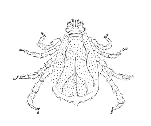 A male of Rhipicephalus annulatus (Acari: Parasitiformes: Ixodidae).